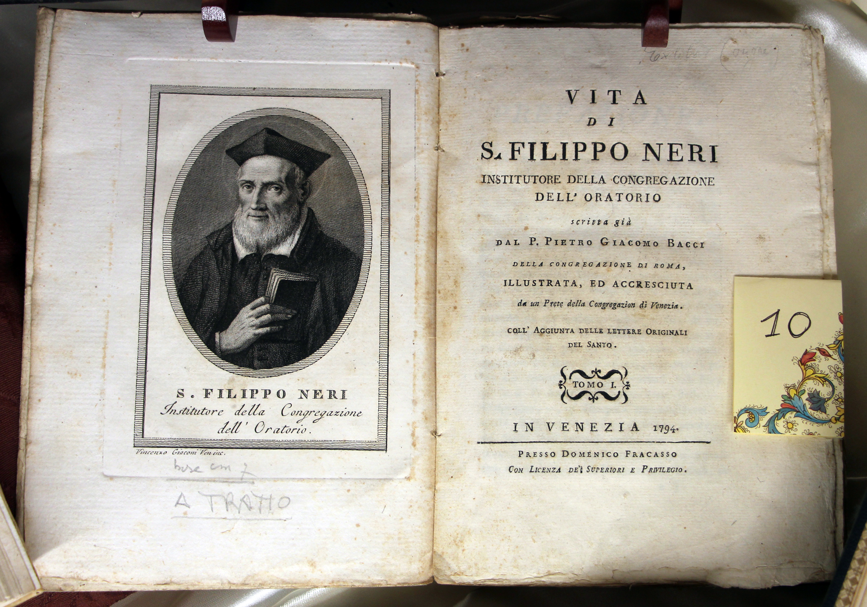 Complesso di San Firenze - Interior